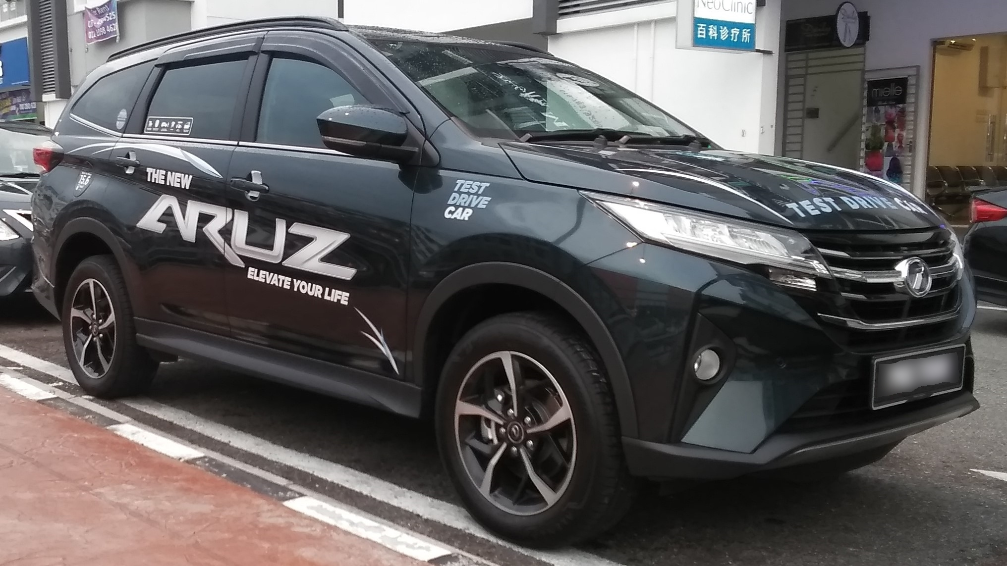 Perodua Aruz AV in Penang, Malaysia